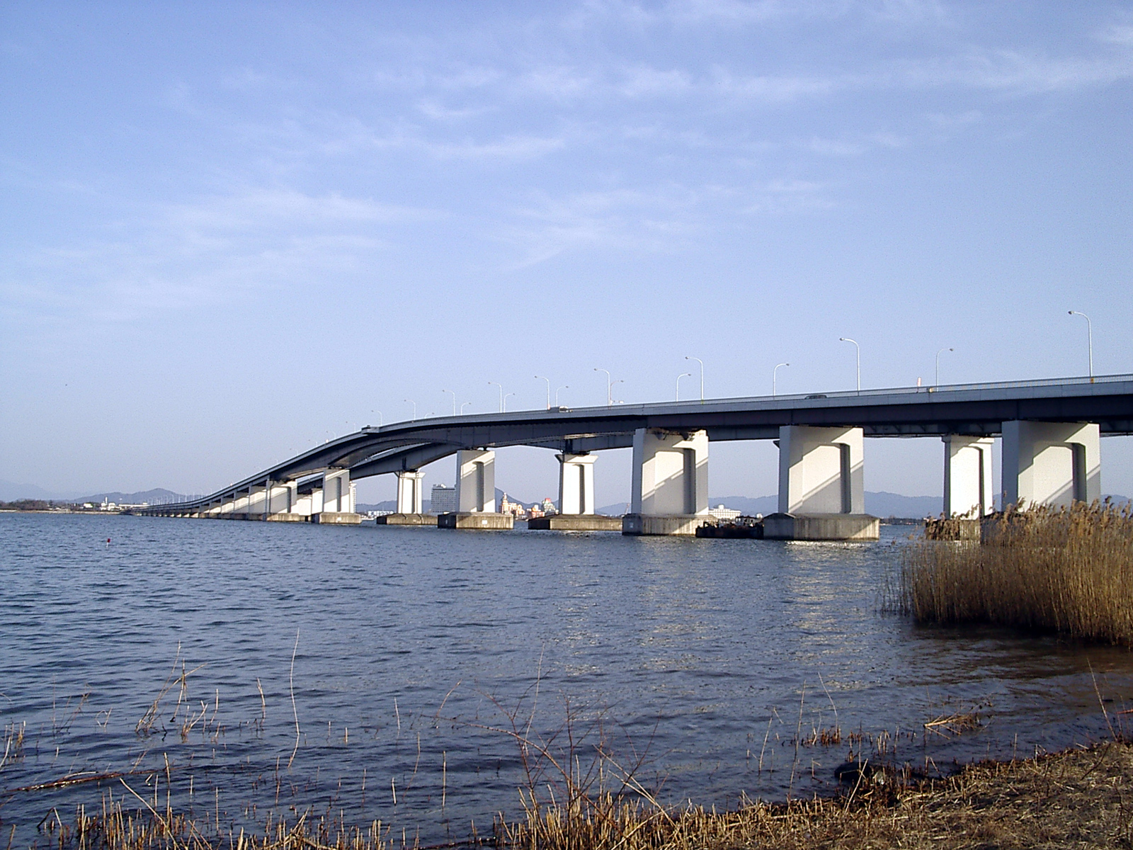 琵琶湖大橋。 Biwako Bridge, a bridge across Lake Biwa. The image was taken in March, 2006 by the poster.